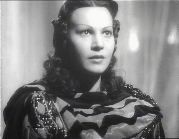 creenshot from the film La corona di ferro (1941)